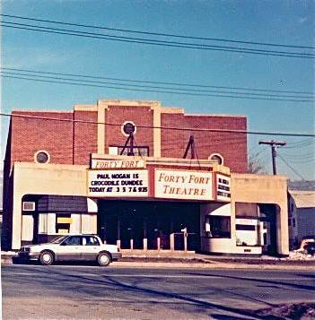 Exterior photo of the Forty Fort Theater on Wyoming Avenue, taken in 1987